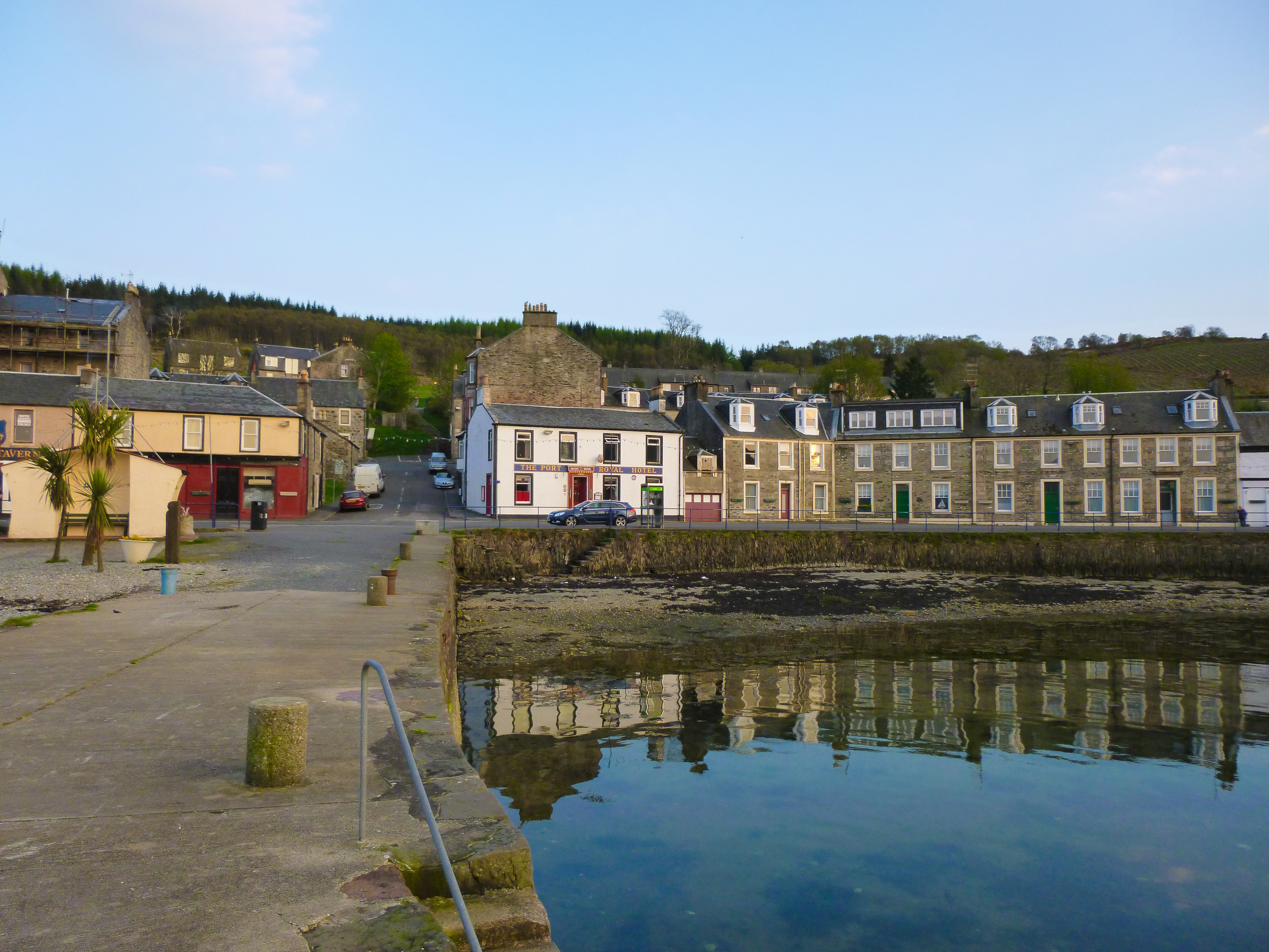 View of the village from the old quay